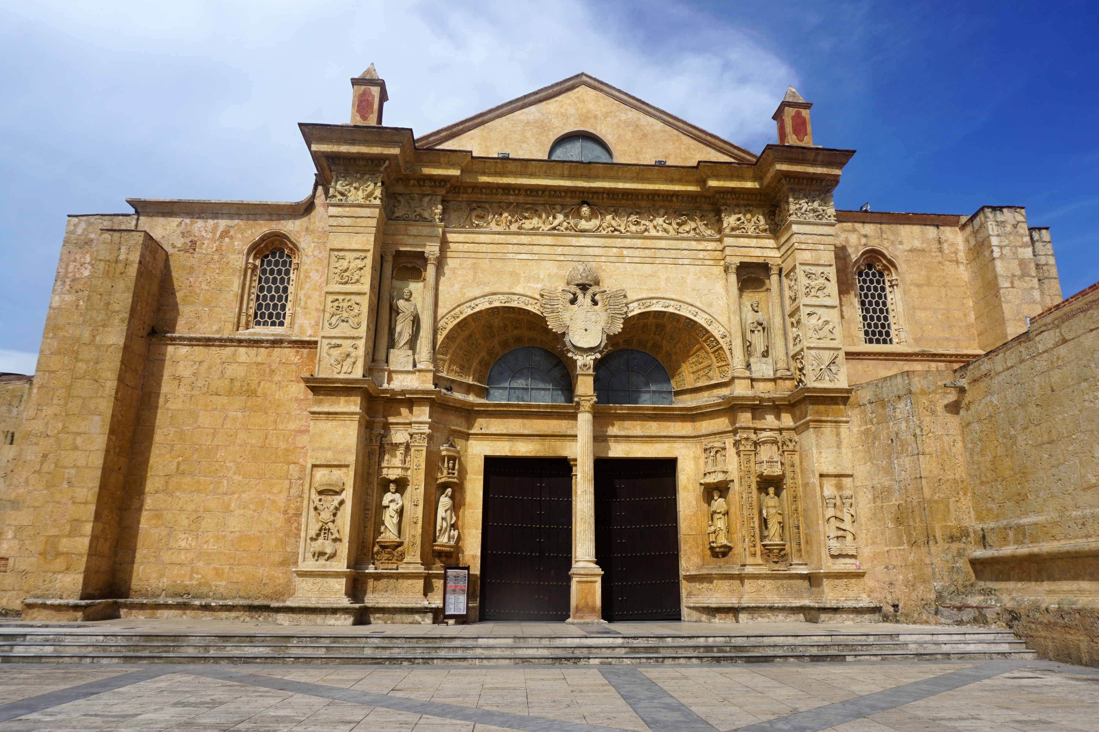 Main facade Catedral Primada (Basílica Menor de Santa María), Ciudad Colonial Santo Domingo.